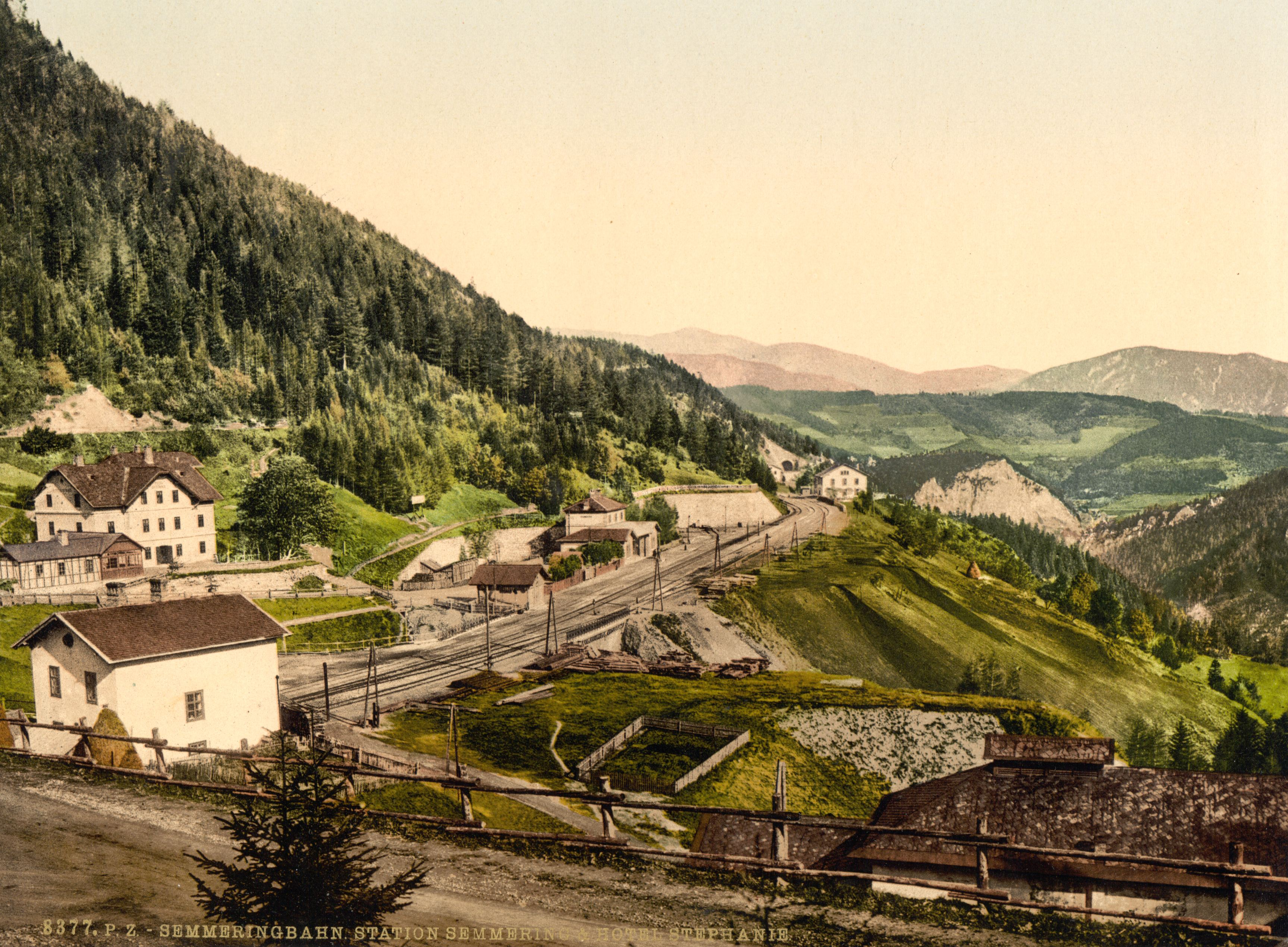 Semmering Railway, Semmering station in Lower Austria (not Styria as noted in LoC image description!), Austro-Hungary